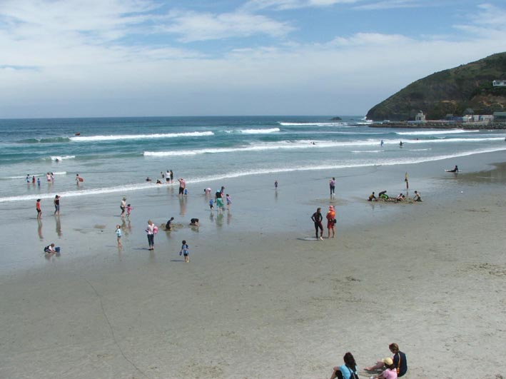 St. Clair Beach, Dunedin, New Zealand. Photo by James Dignan (User:Grutness), taken in October 2006.